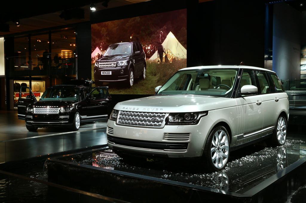 4th generation Range Rover at the 2012 Paris Motor Show